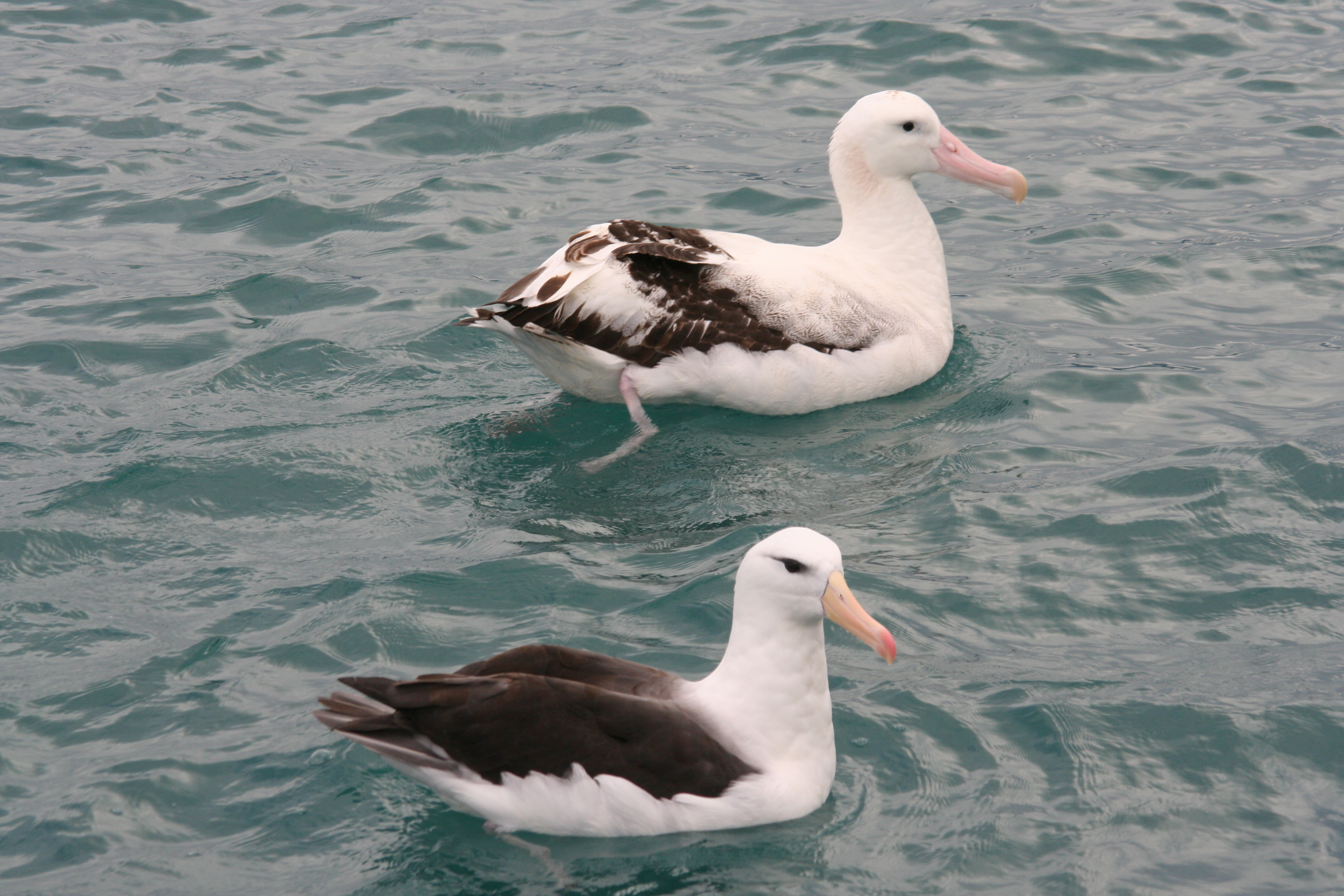 Antipodean Albatross of the Gibson subspecies (above) with a Black-browed Albatross (below). Good for showing the size of the two genera. The Antipodean Albatross was formerly considered conspecific with the Wandering Albatross, and some older taxonomies still use that.